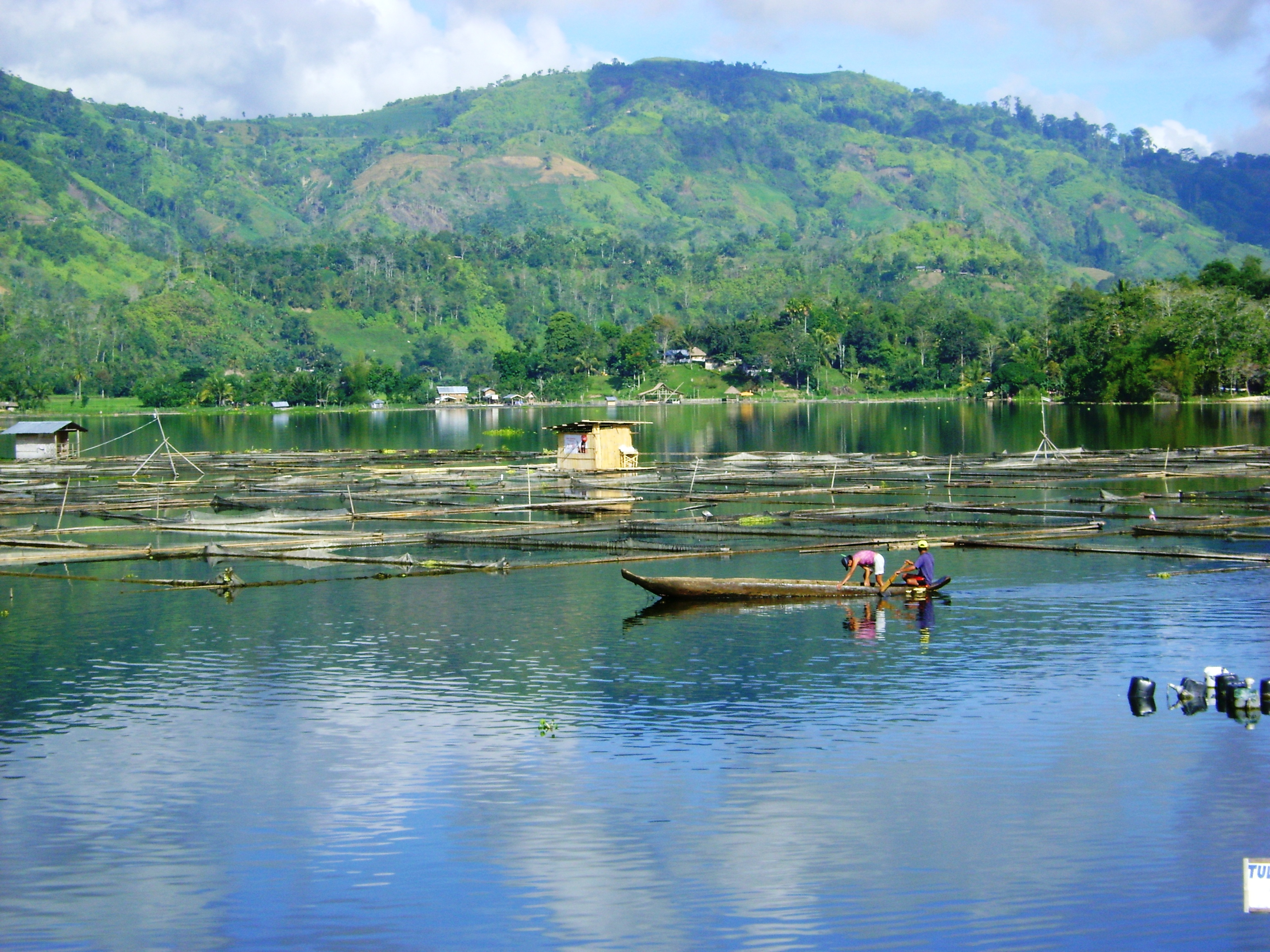 Canoers on Lake Sebu